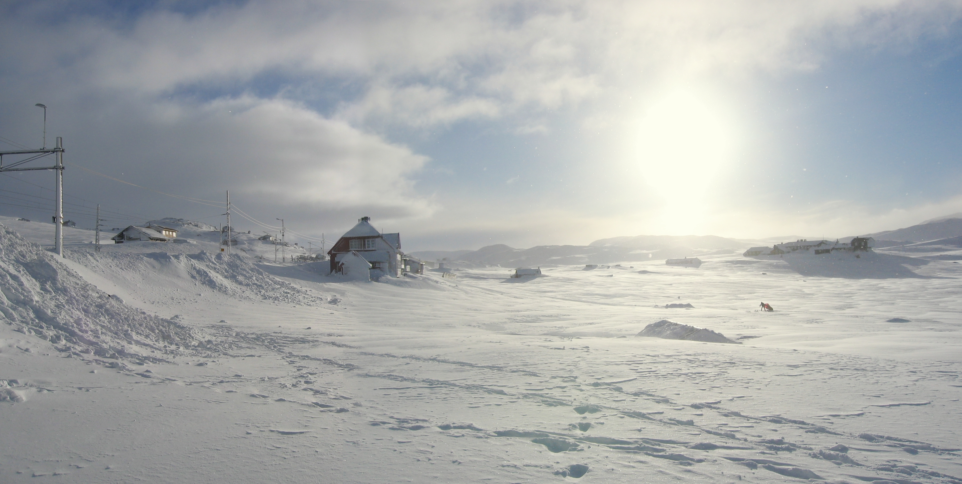 View of the of railroad towards Oslo and the eastern tip of the lake. Stitched together from two pictures using the GIMP.